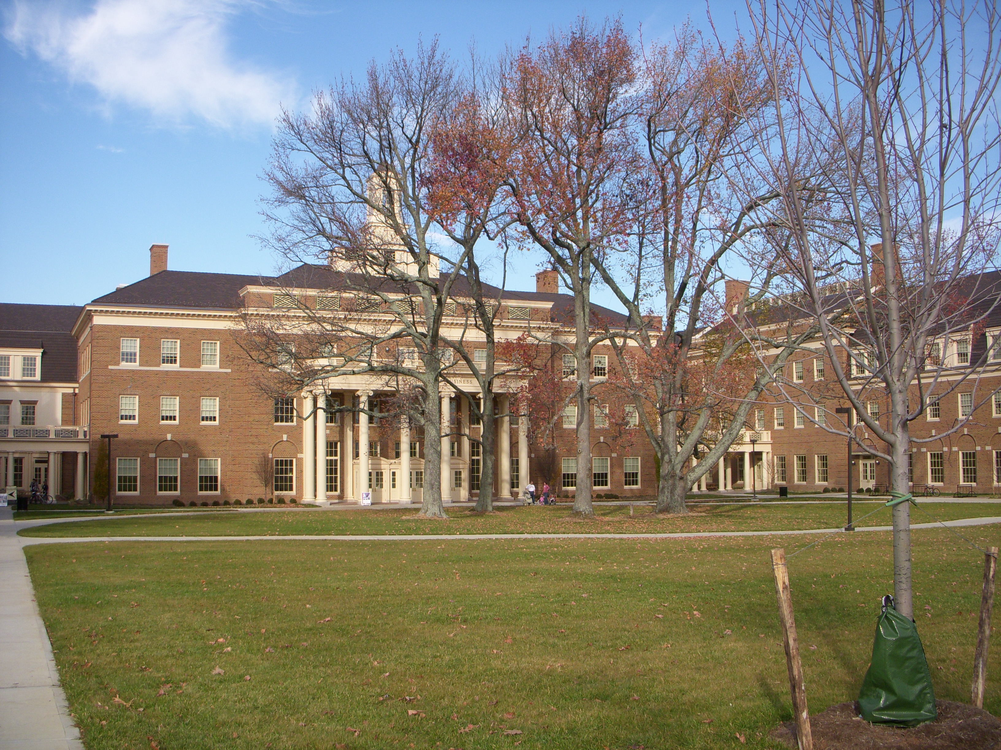 Front landscape view of the main entrance